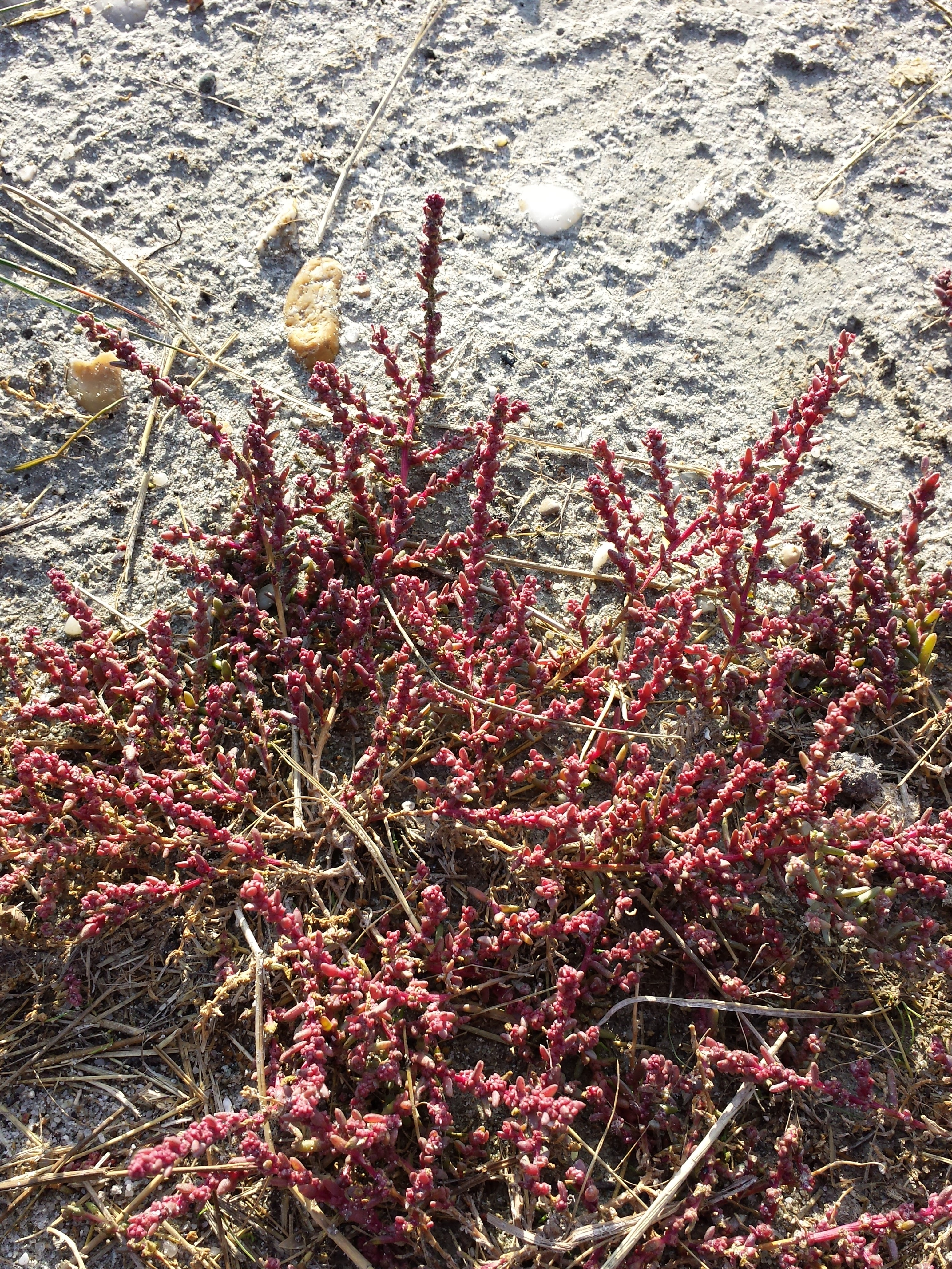 Habitus Taxon: Suaeda prostrata (sensu Fischer et al. EfÖLS 2008; det M. A. Fischer 2013-10-12) Location: small salt lake near Podersdorf, district Neusiedl am See, Burgenland, Austria - ca. 120 m a.s.l. Habitat: dried-out small salt lake